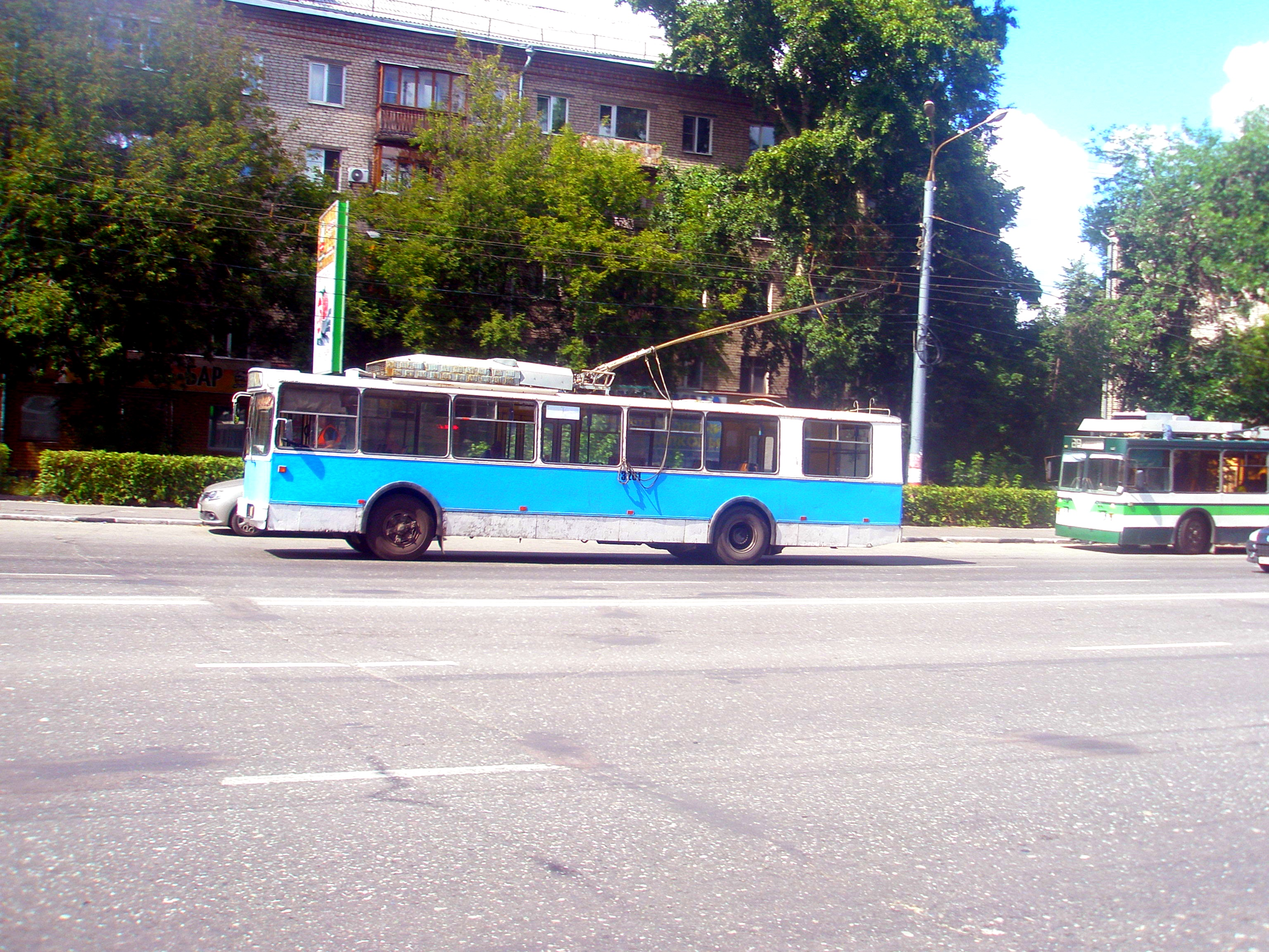 Trolleybus in Nizhny Novgorod on Lenin Road